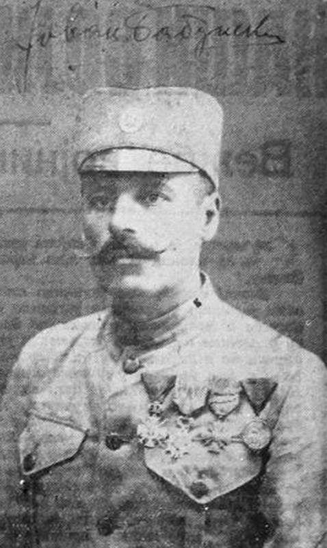 Jovan Babunski at the Salonica Front